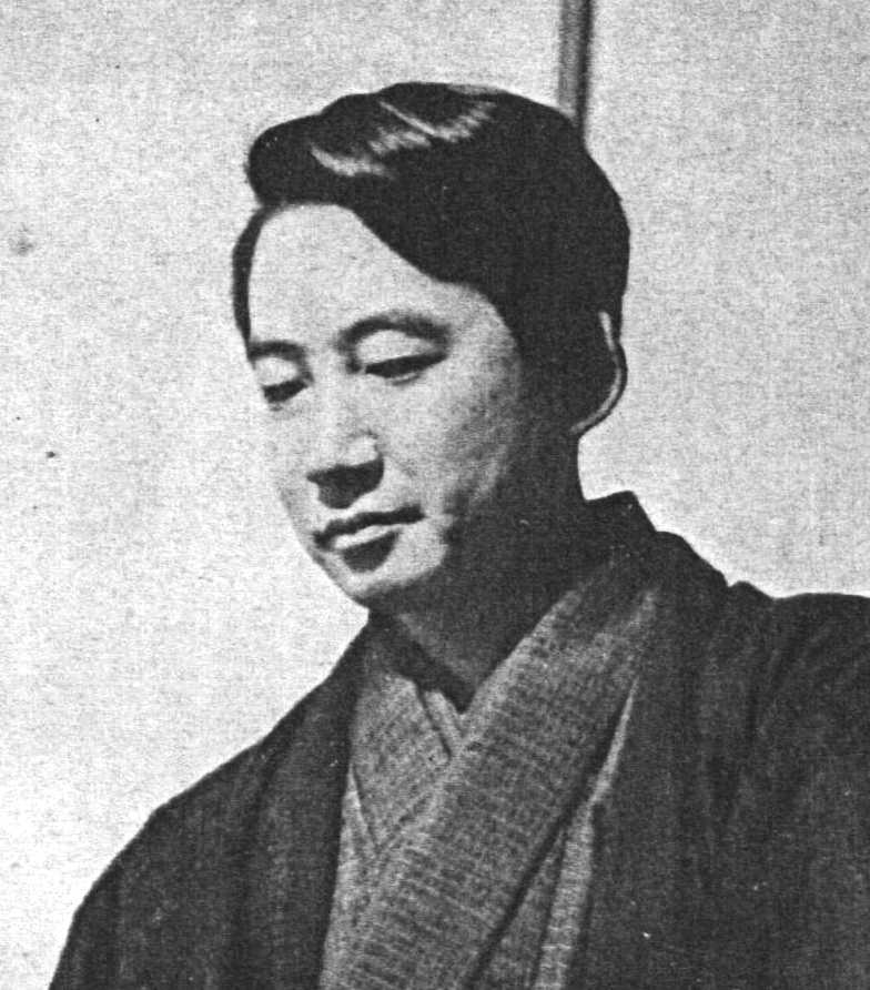 Photo of the film critic Hideo Tsumura